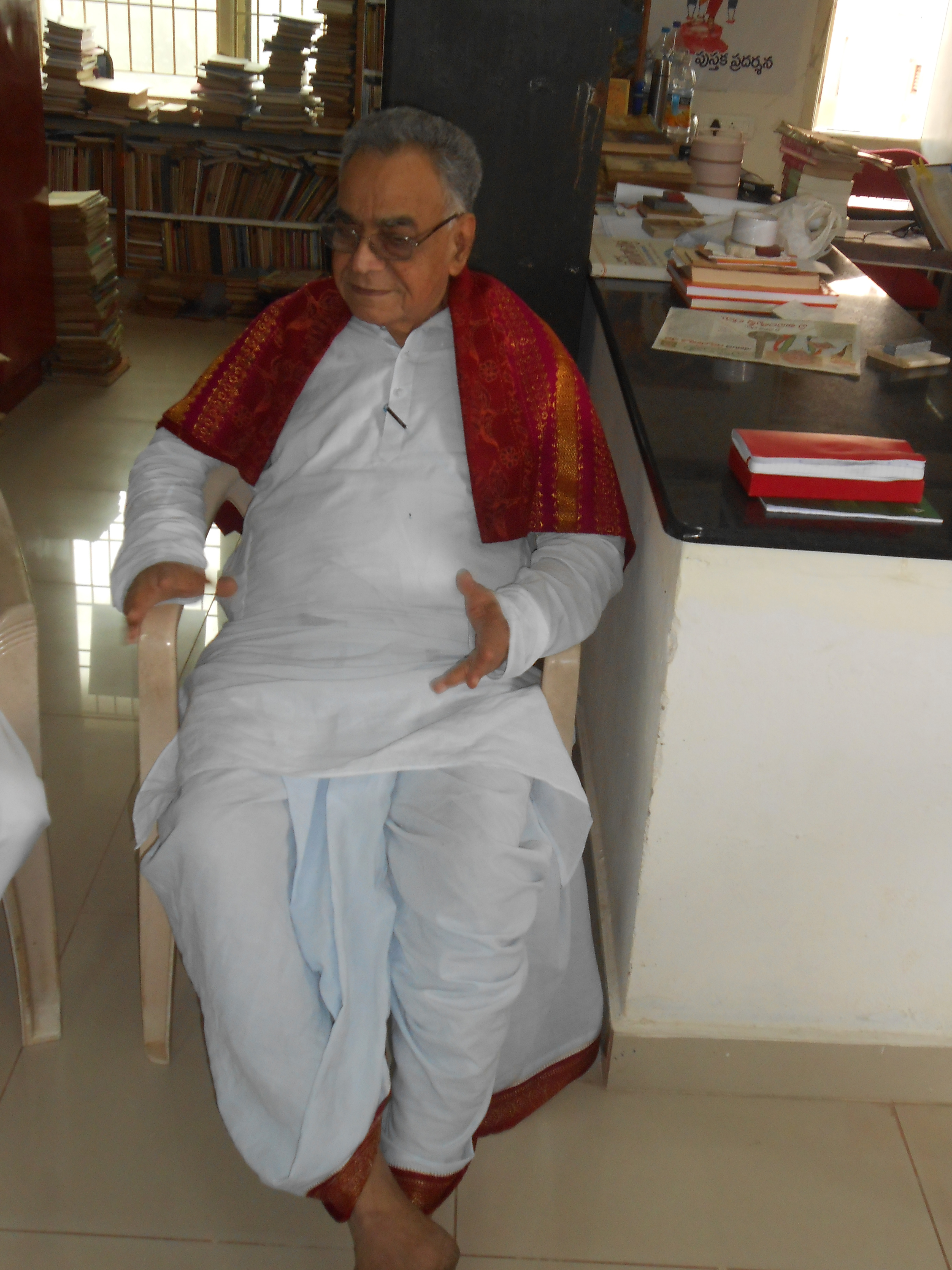 శ్రీ పొత్తూరి వేంకటేశ్వరరావు 29.01.2015